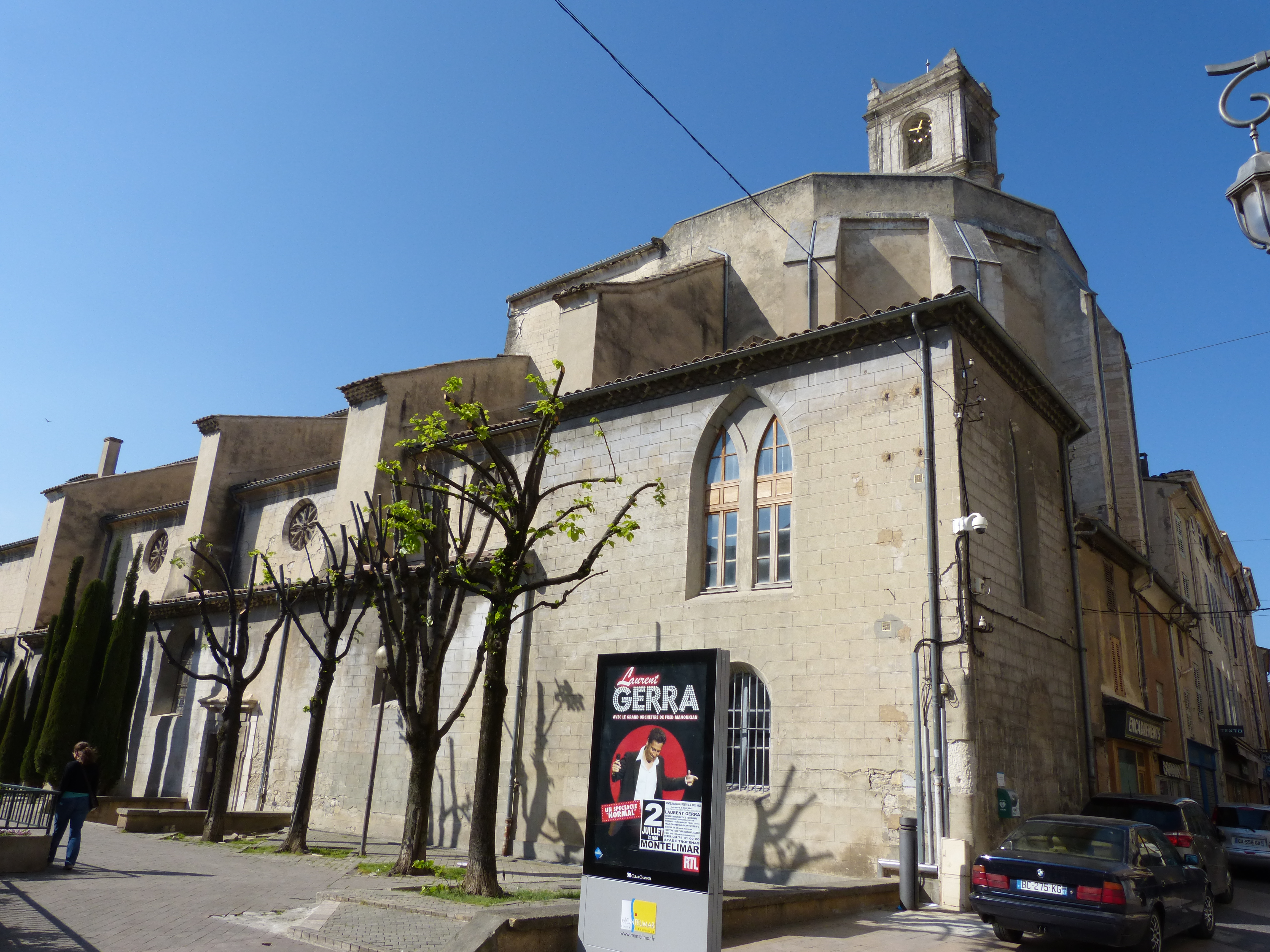 South-est view from the collegiate church Sainte Croix in Montélimar.